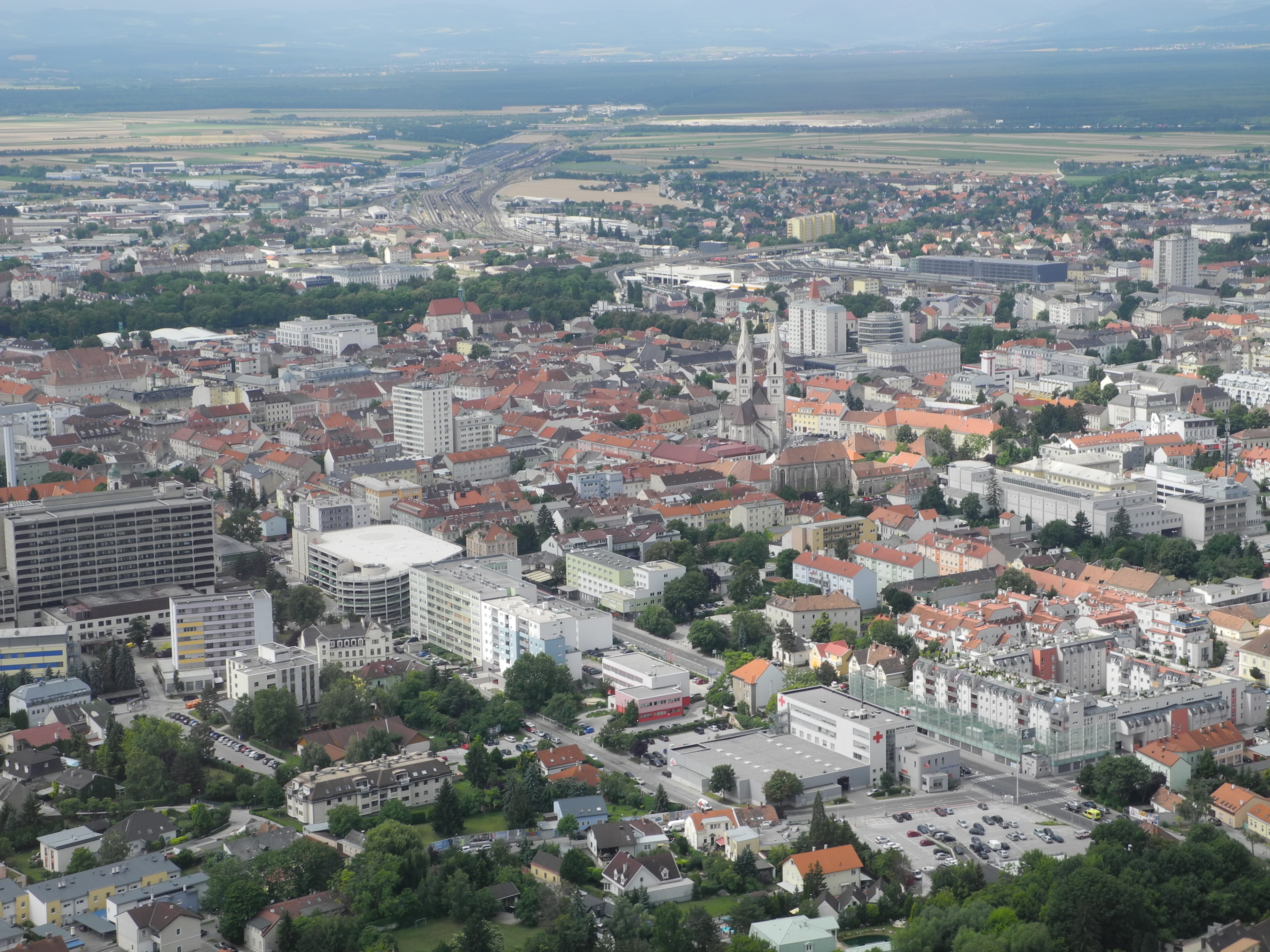 Aerial view of Wiener Neustadt town centre, Lower Austria